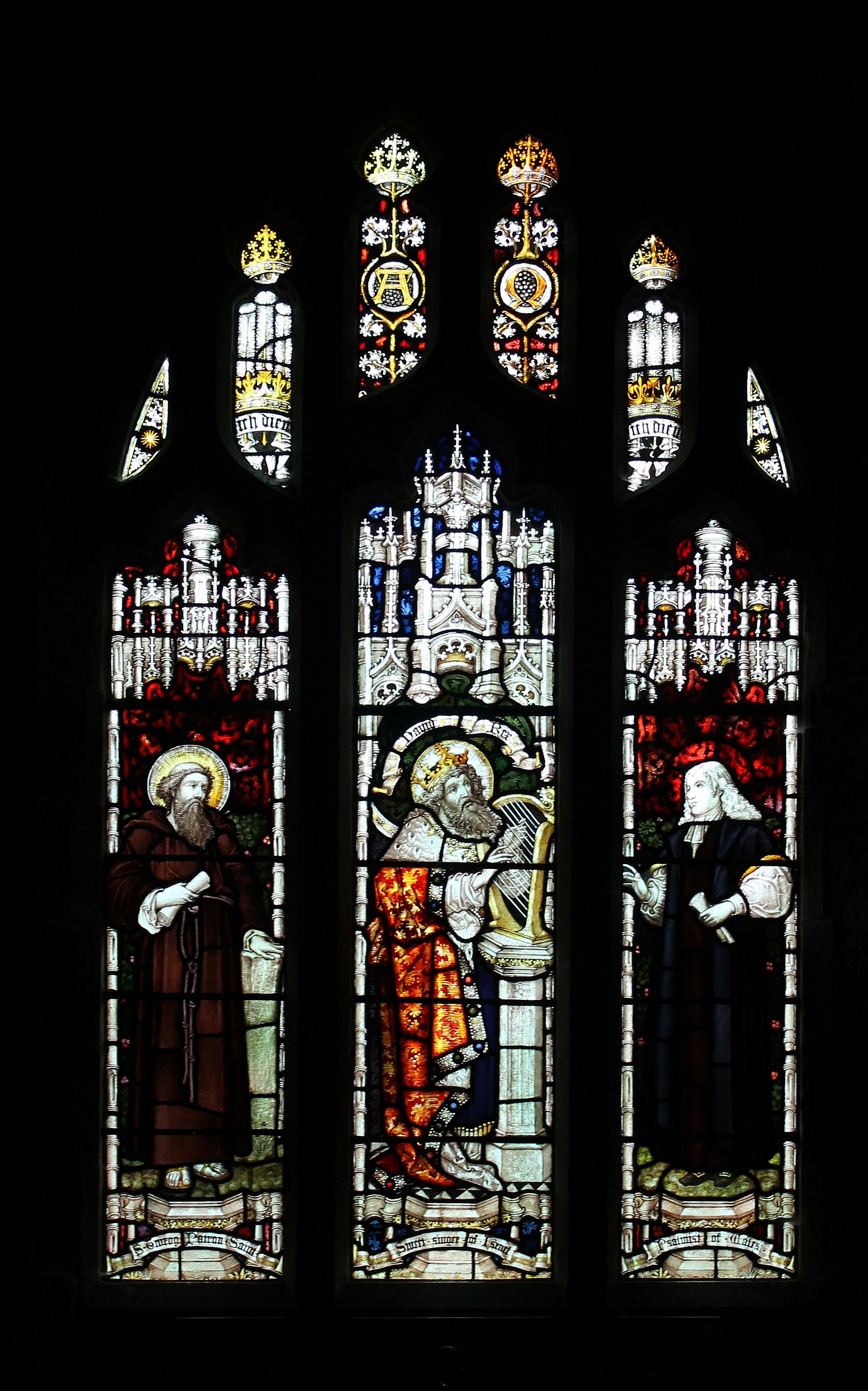 Saint Twrog's Church is in the village of Maentwrog in the Welsh county of Gwynedd, lying in the Vale of Ffestiniog, within the Snowdonia National Park.